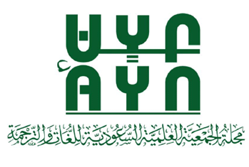 ayn